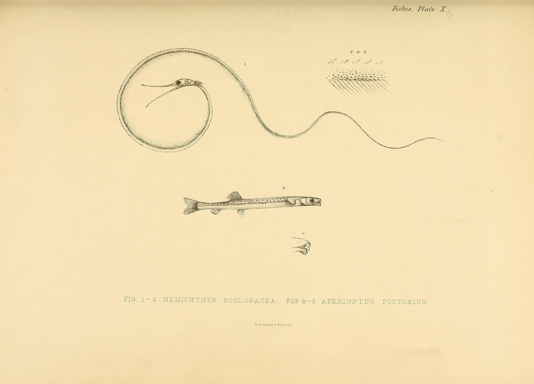 Nemichthys scolopaceus & Acanthopsoides molobrion syn. Aperioptus pictorius